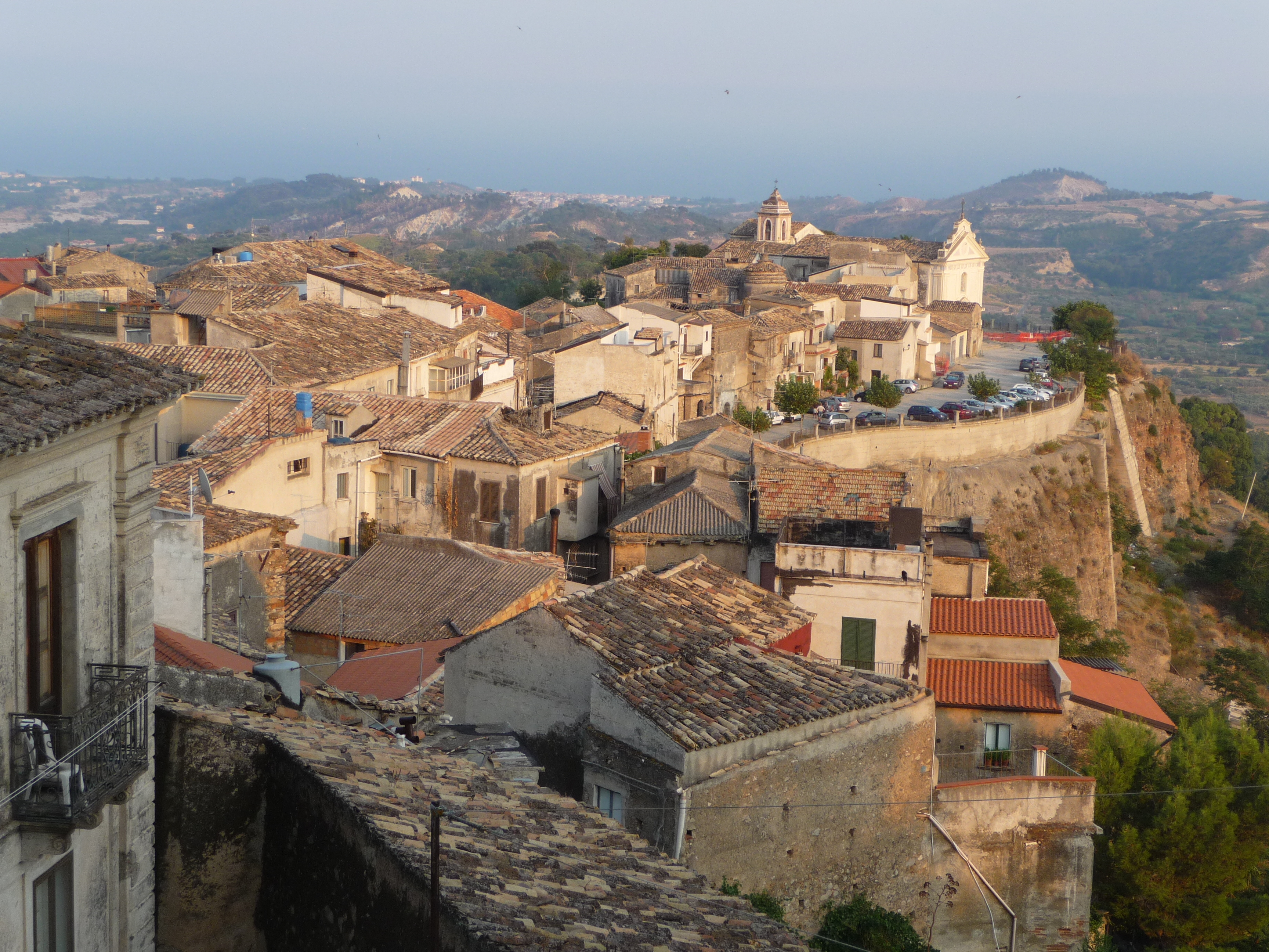 Caulonia landmark